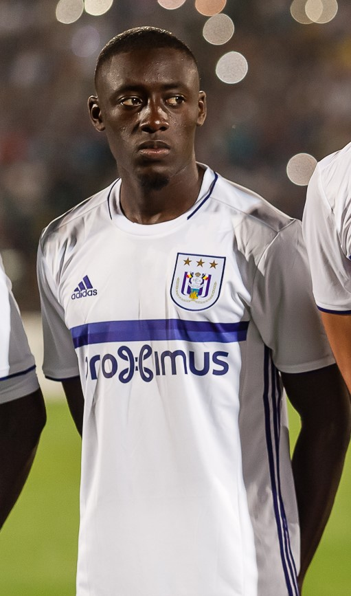 Dennis Appiah